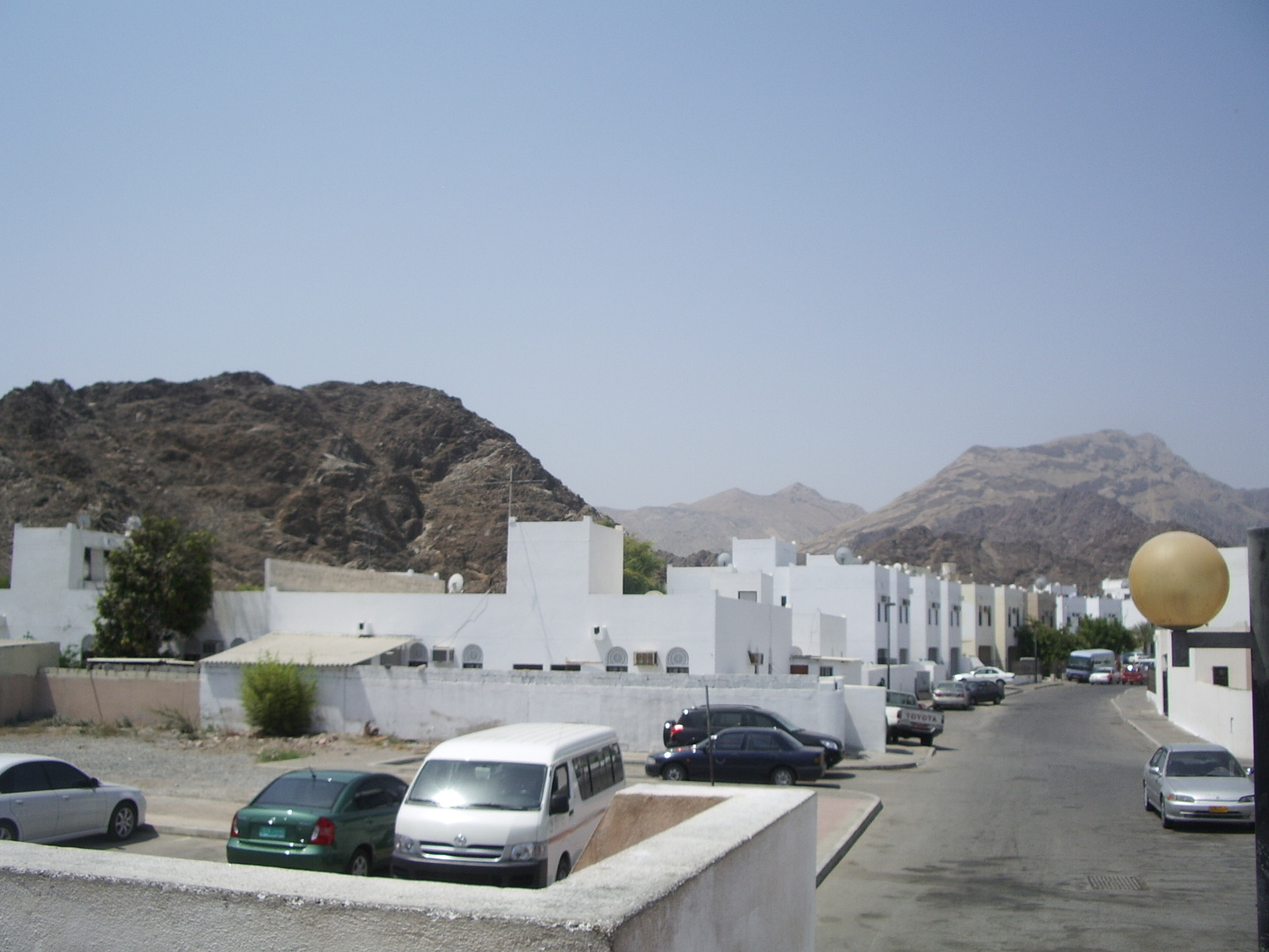 The city of Muscat